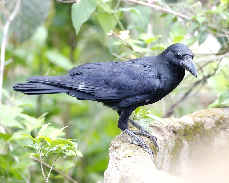 Eastern Jungle Crow Corvus levaillantii, Kazaringa, Assam, India